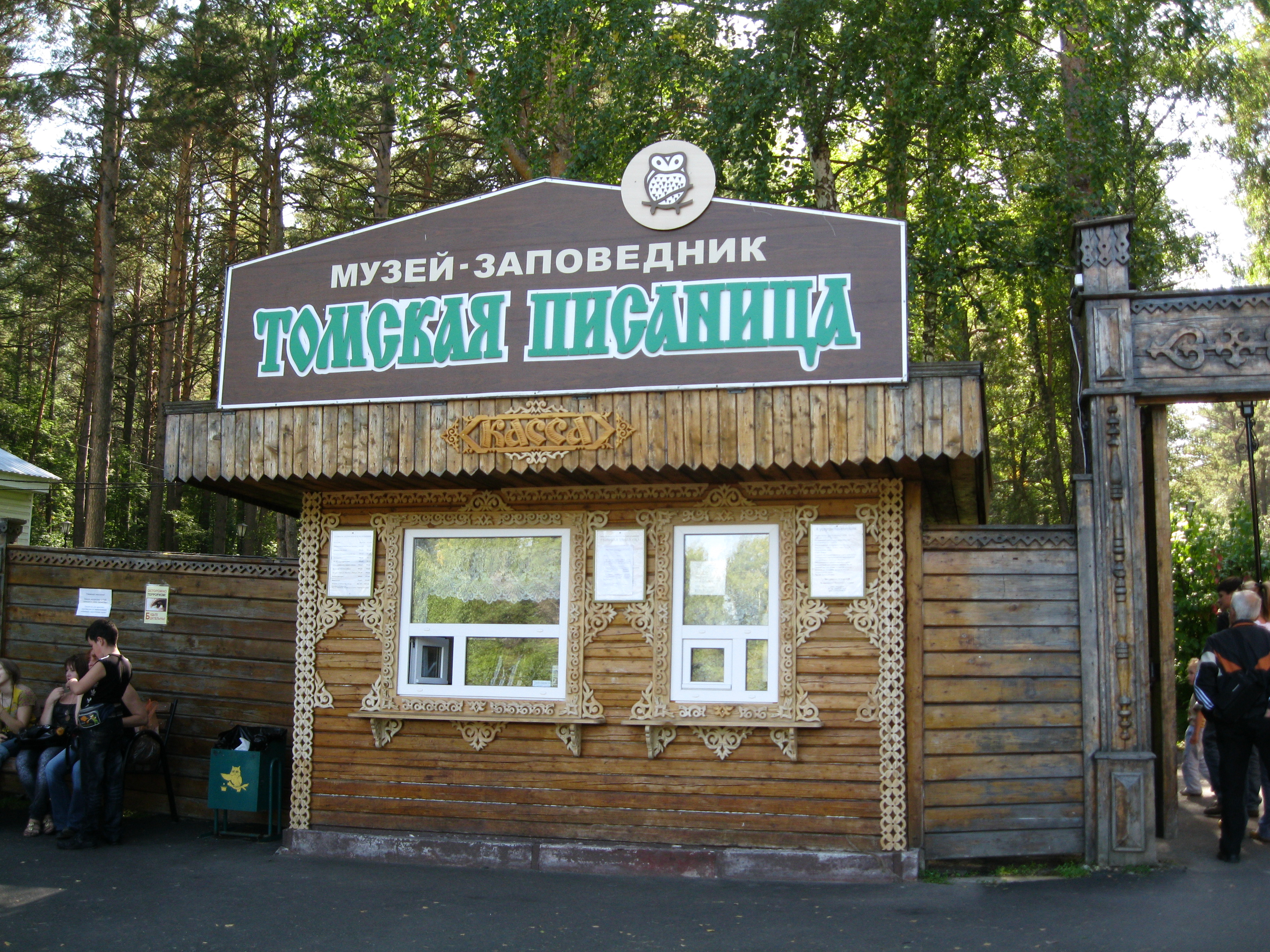 Tomskaya Pisanitsa museum entrance, Kemerovo Oblast, Russia